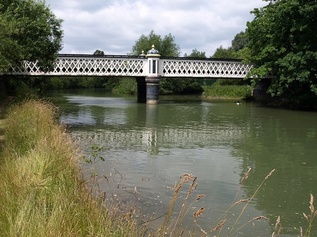 Gasworks Bridge, Oxford This was formerly a railway bridge, built in 1882 by the Oxford Gaslight and Coke Company to move coal to a gasworks which was demolished in 1960. It now acts as a footbridge, one of two adjacent bridges called "Osney Footbridge". Seen from downstream on the Thames Path.